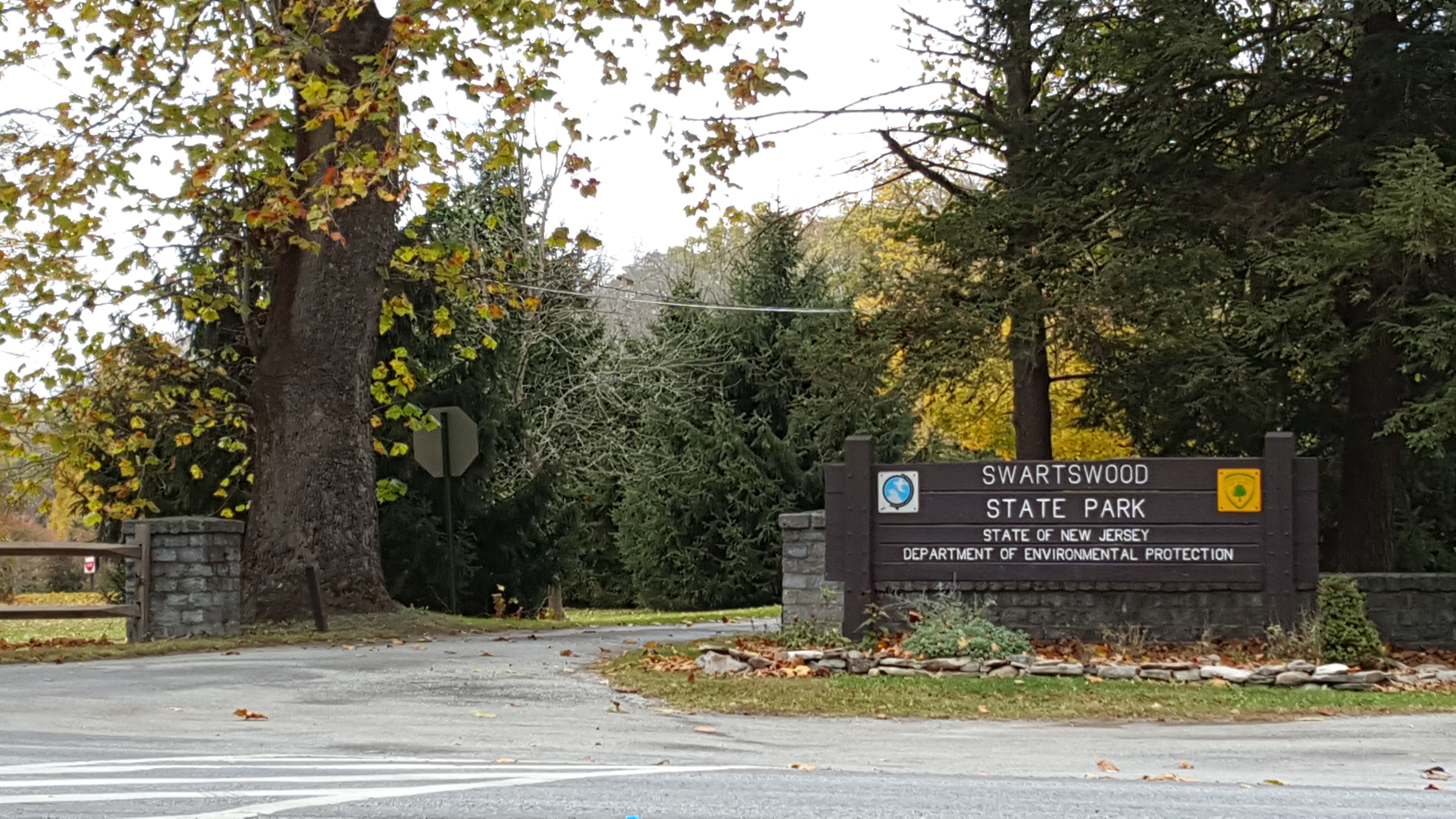 Entry gate for Swartswood State Park on CR 619 in Sussex County, New Jersey.